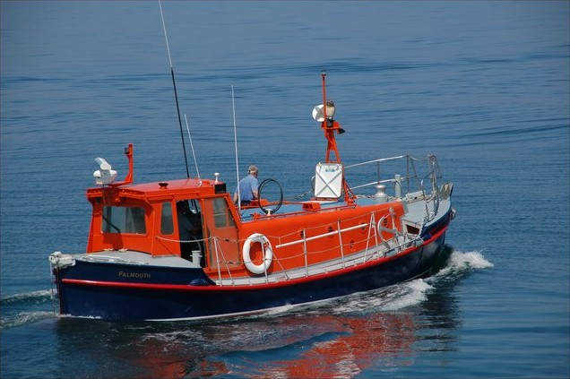 Aberystwyth here we come. The former lifeboat "Harold Salvesen" departing Donaghadee, on her delivery voyage to Aberystwyth.